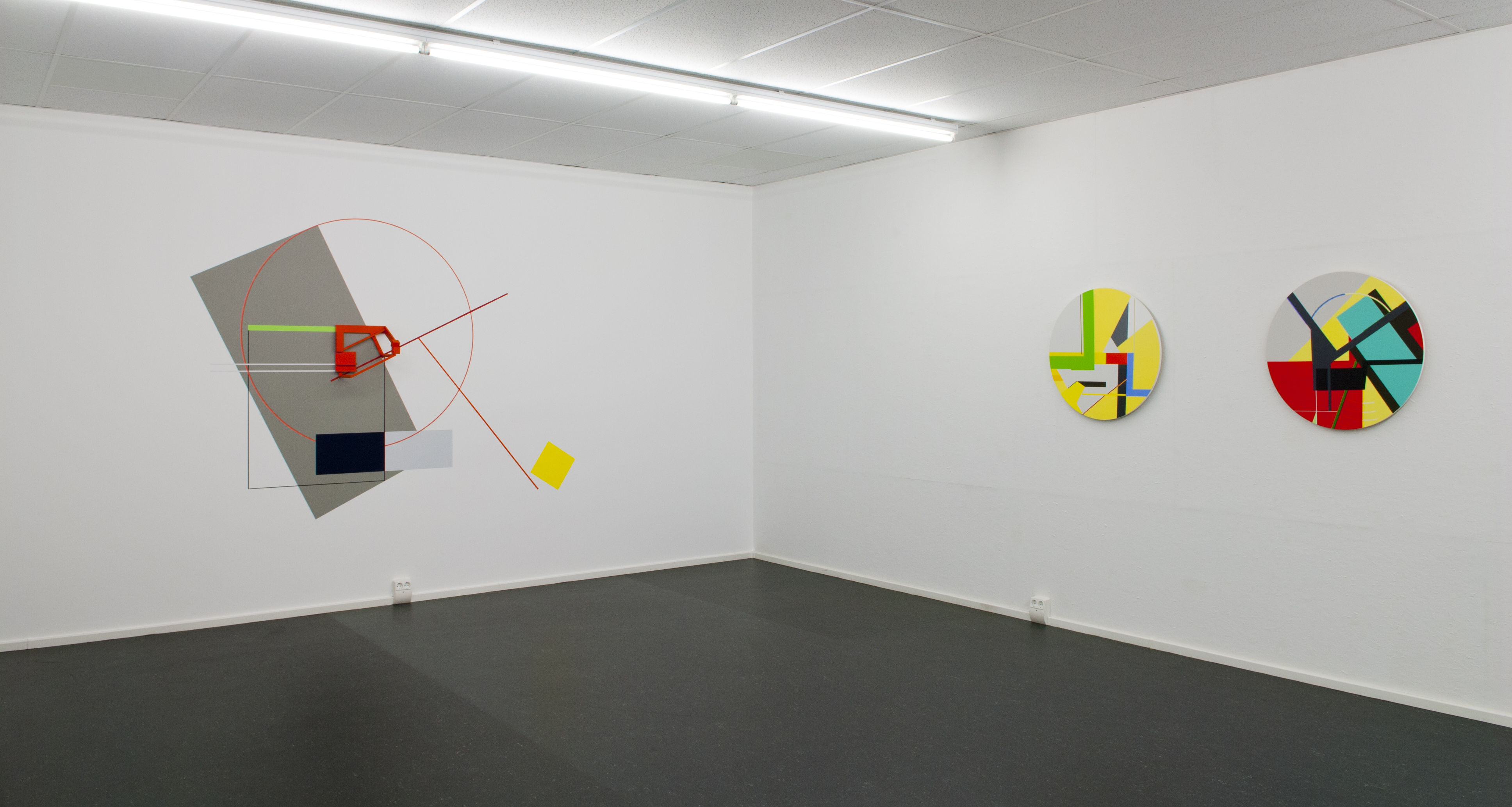 Susanne Kathlen Mader, Circularis, exhibition view, Museum Modern Art, Hünfeld 2011.